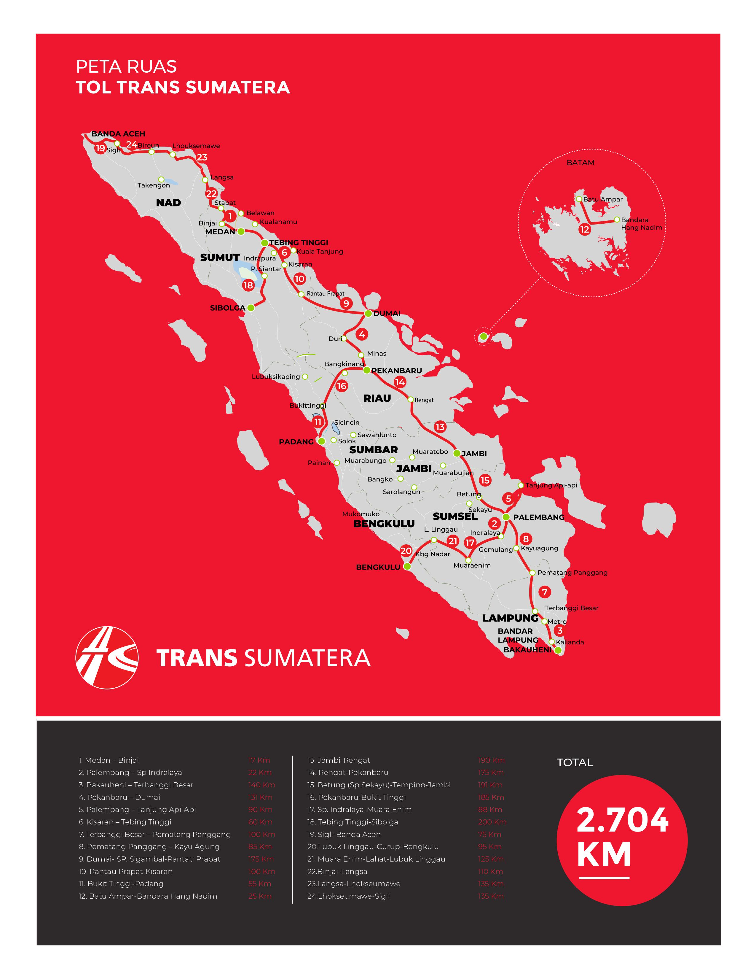 Trans Sumatra Map